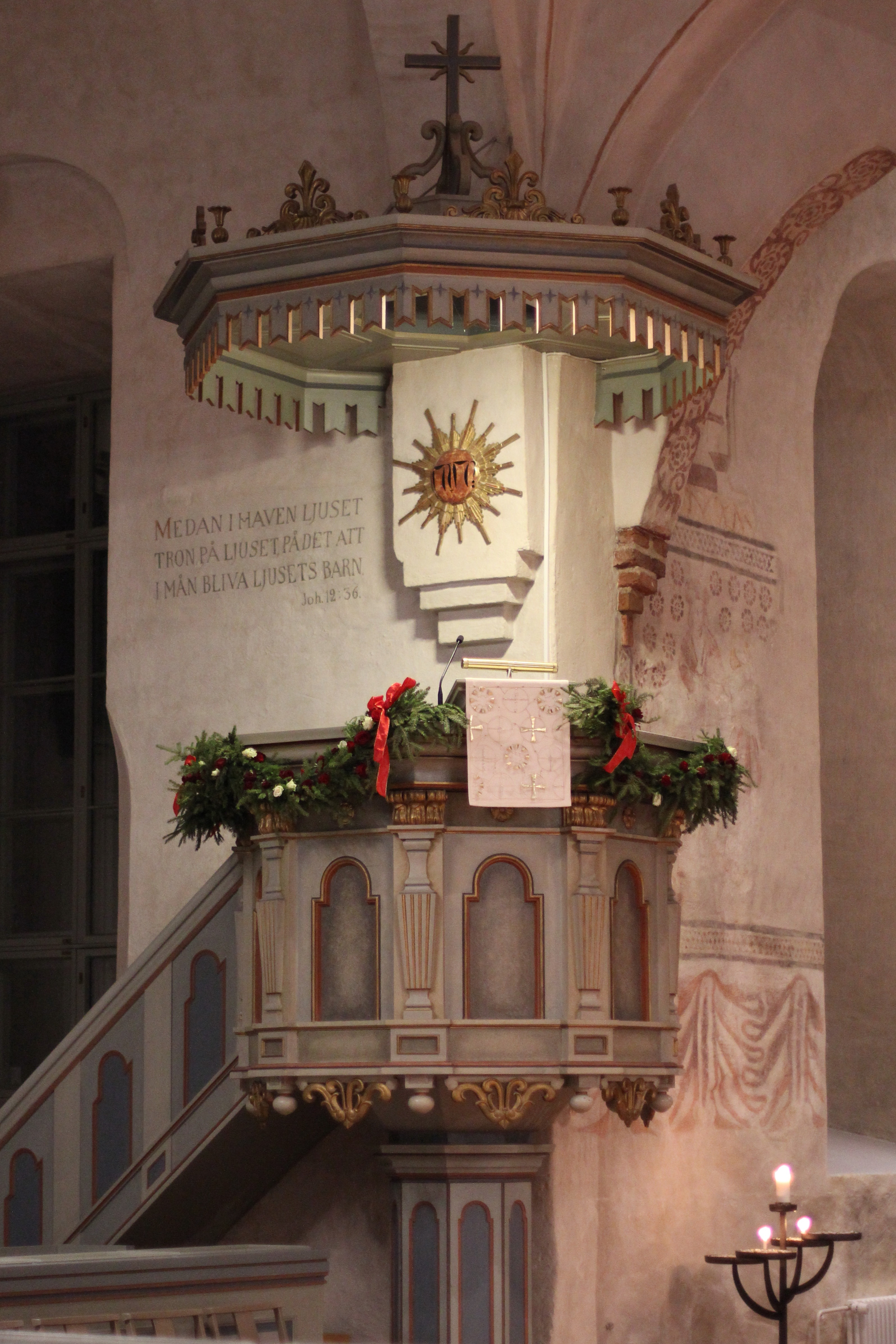 Espoo cathedral, Espoo, Finland. - Pulpit, made in the 1690s.